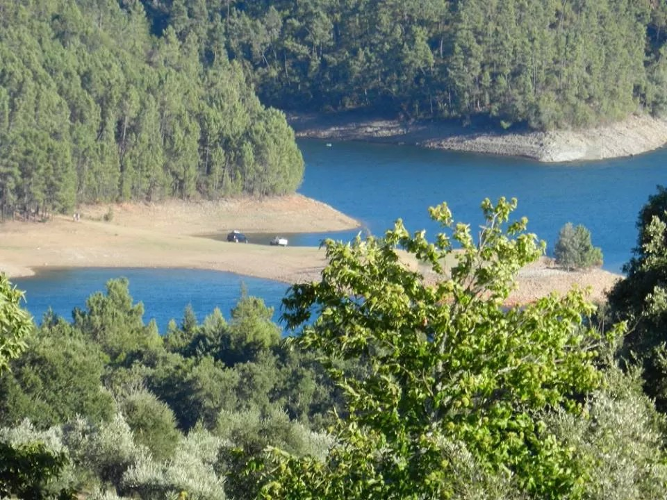 Zêzere River, Seen from Montes - Portugal